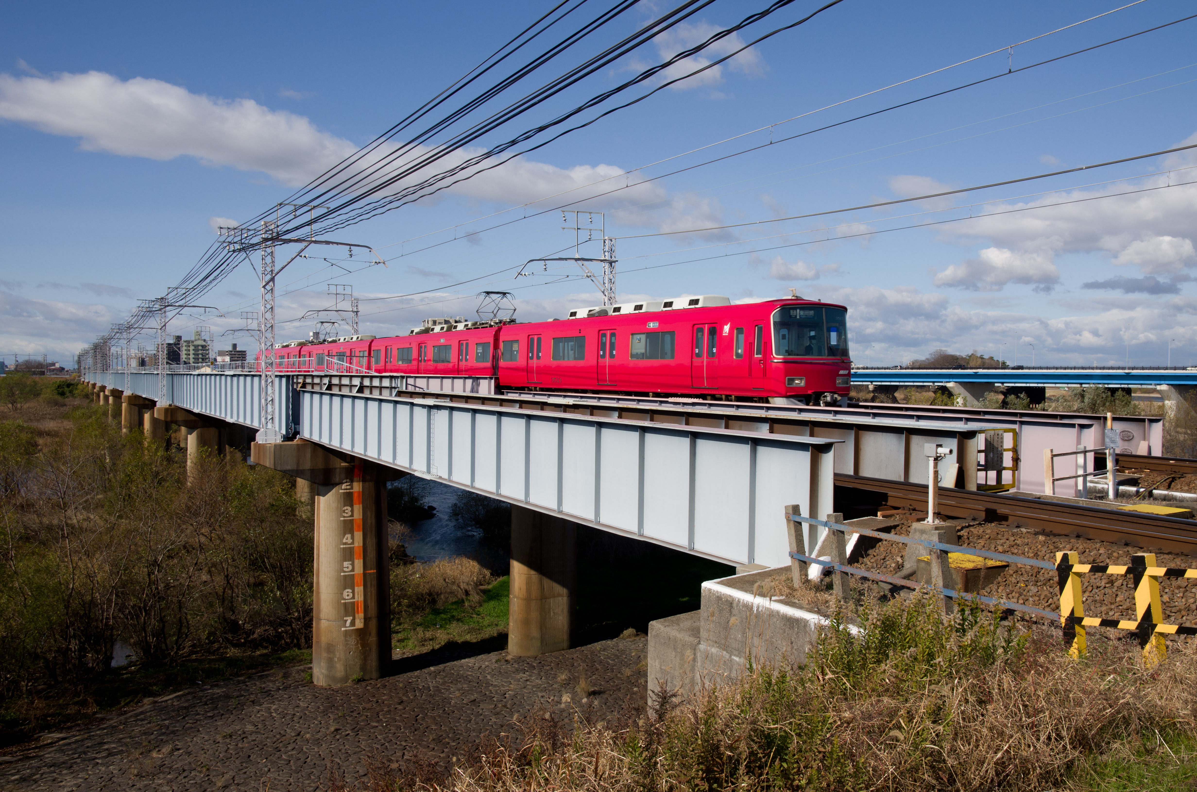 Yahagigawa Bridge (Nagoya Railroad Nagoya Line: Between Okazaki Koen-mae and Yahagi-bashi)